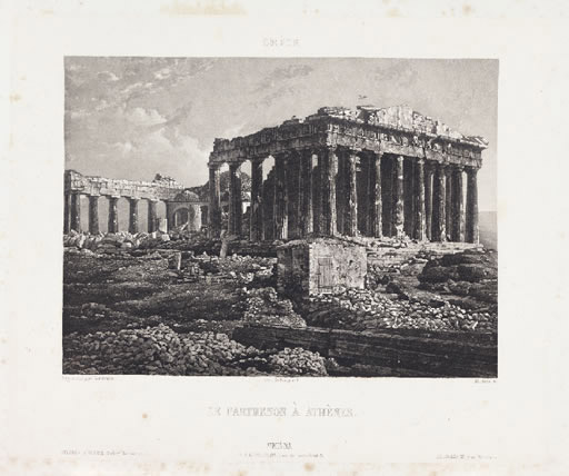 Engraving of the first photograph of the Parthenon. Daguerreotype photograph taken by Pierre-Gustave Joly de Lotbinière in October, 1839. Engraved by Frédéric Martens. Published in Excursions daguerriennes by Noël Paymal Lerebours in 1841.Excerpts from the accompanying text, written by Pierre-Gustave Joly, published in Excursions daguerriennes (this text is in the public domain, like the image):"This view was taken in the autumn of 1839 ; I mention it, because it is the first time that the image of the Parthenon is fixed on a plate by the ingenious method of Daguerre, and because each year could bring new changes to the look of those famous ruins: a catastrophe could collapse them tomorrow, or a friendly and generous hand could raise those marbles scattered on the ground, and restore into an imposing whole what was the most beautiful of temples. [...] A mosque occupies a part of the interior, it is now used to store the precious debris found during the excavations of the Acropolis. Once, there had been a gunpowder magazine on the same spot, it caused, when it exploded, the collapse of a large part of the temple. On the columns, many white spots can be seen, they are chips of marble removed by bullets and cannonballs during the last war."